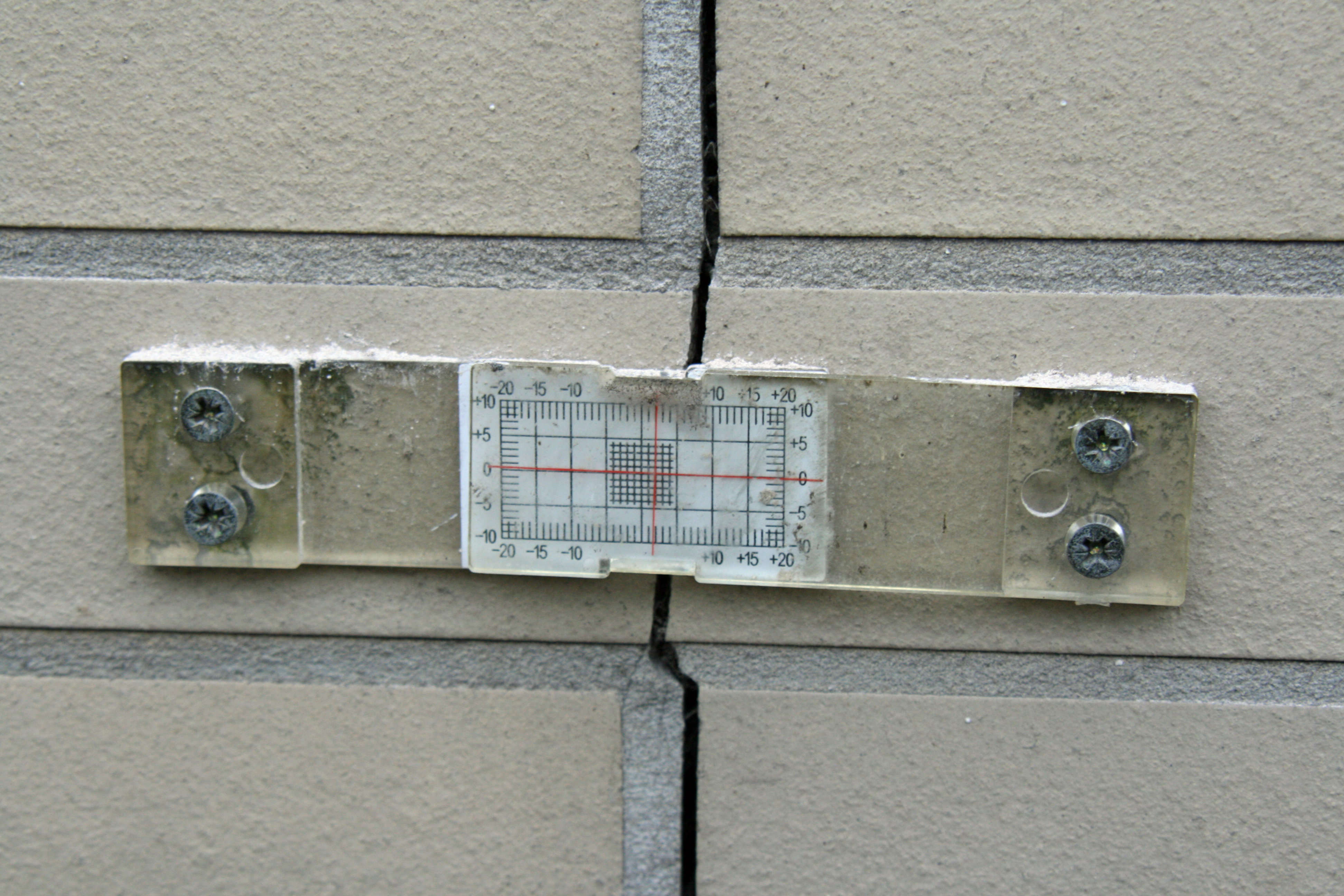 Rupture in the wall of a house next to the collapsed Cologne City Archive under observation (Crack Distance Monitoring)